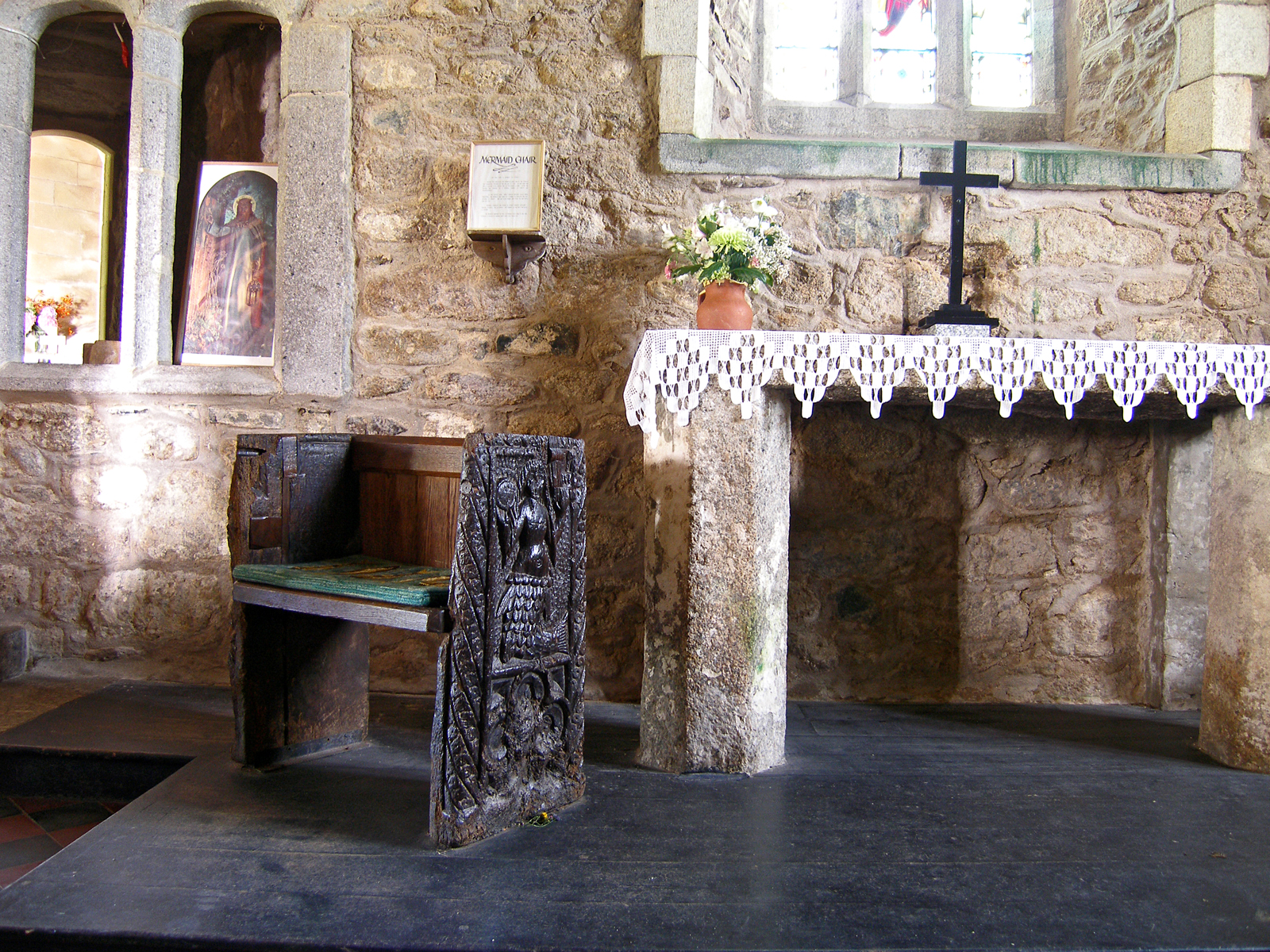 The centuries hold Mermaid Chair in Zennor